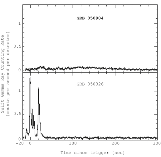 Shows the counting rate in the gamma-ray instrument on Swift for two gamma-ray bursts. The top panel is for the high redshift burst observed on September 4, 2005 (GRB 050904). The bottom panel shows a typical burst for comparison; it is the one Swift detected on March 26, 2005 (GRB 050326). GRB 050904 is fainter and much longer than typical.